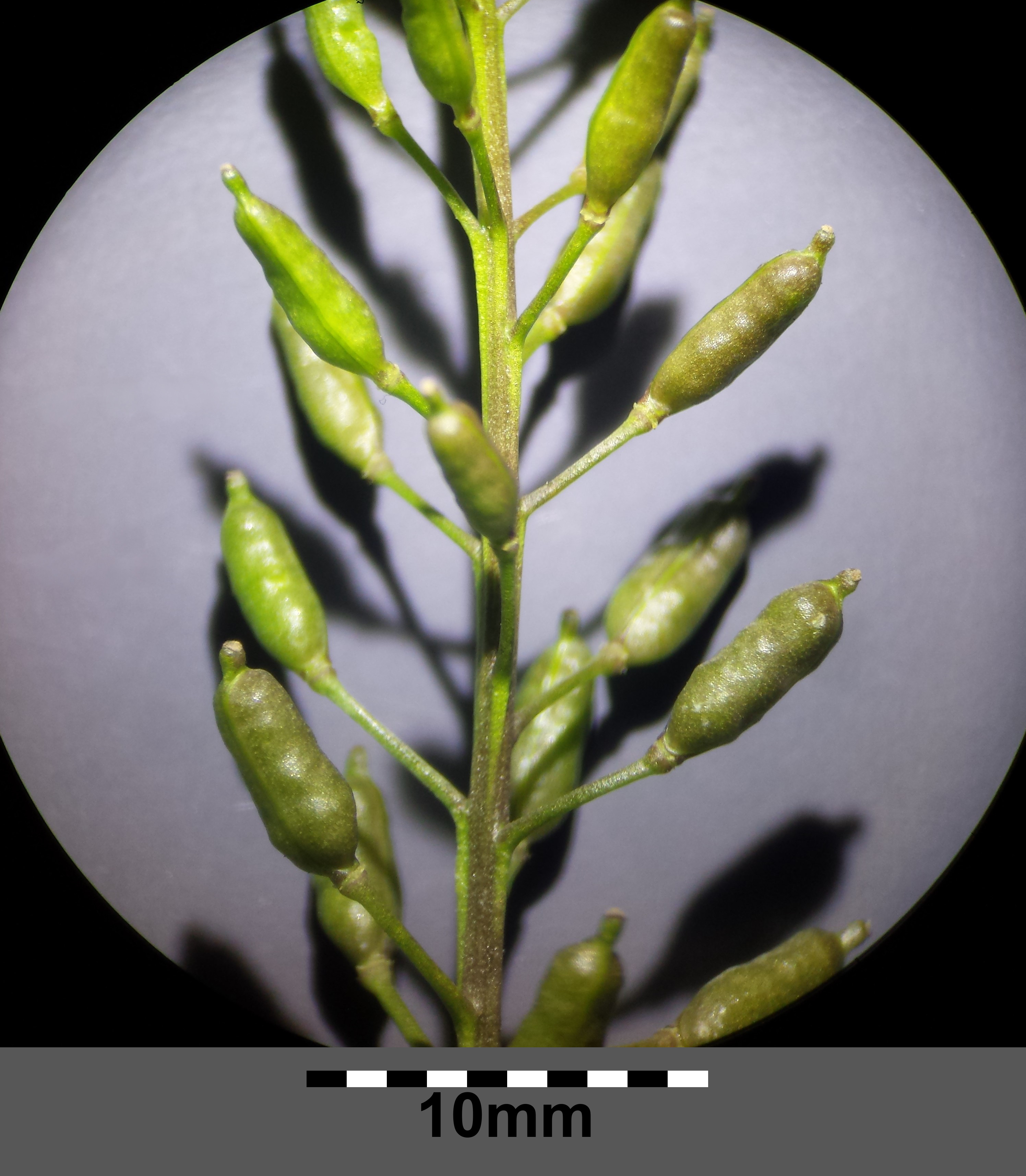 Infructescence Taxonym: Rorippa palustris ss Fischer et al. EfÖLS 2008 ISBN 978-3-85474-187-9 Location: Rudmannser Teich, district Zwettl, Lower Austria - ca. 580 m a.s.l. Habitat: wet meadows